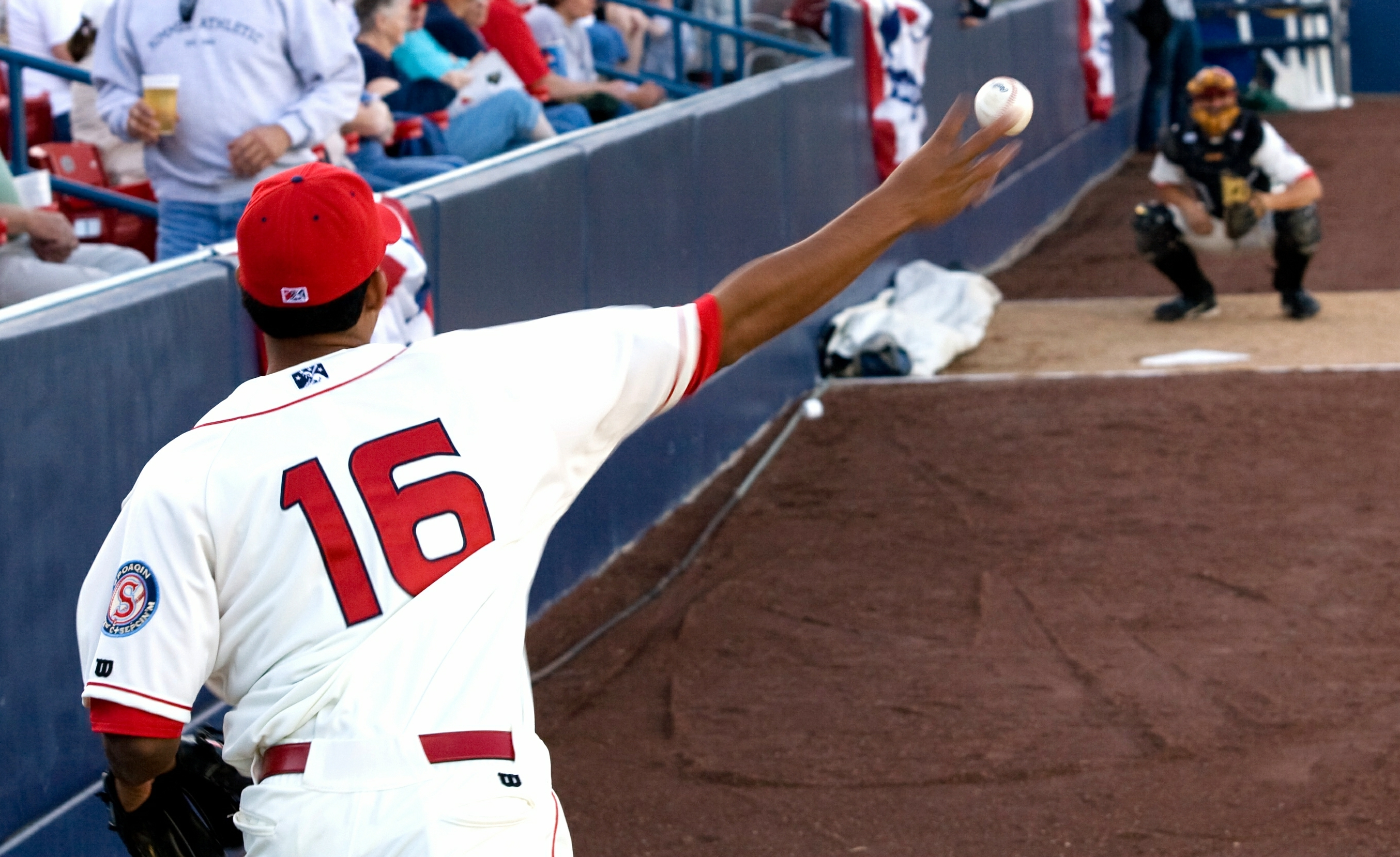 Wilfredo Boscan of the Spokane Indians throws warmup pitches during a 2008 game in Spokane, Washington.